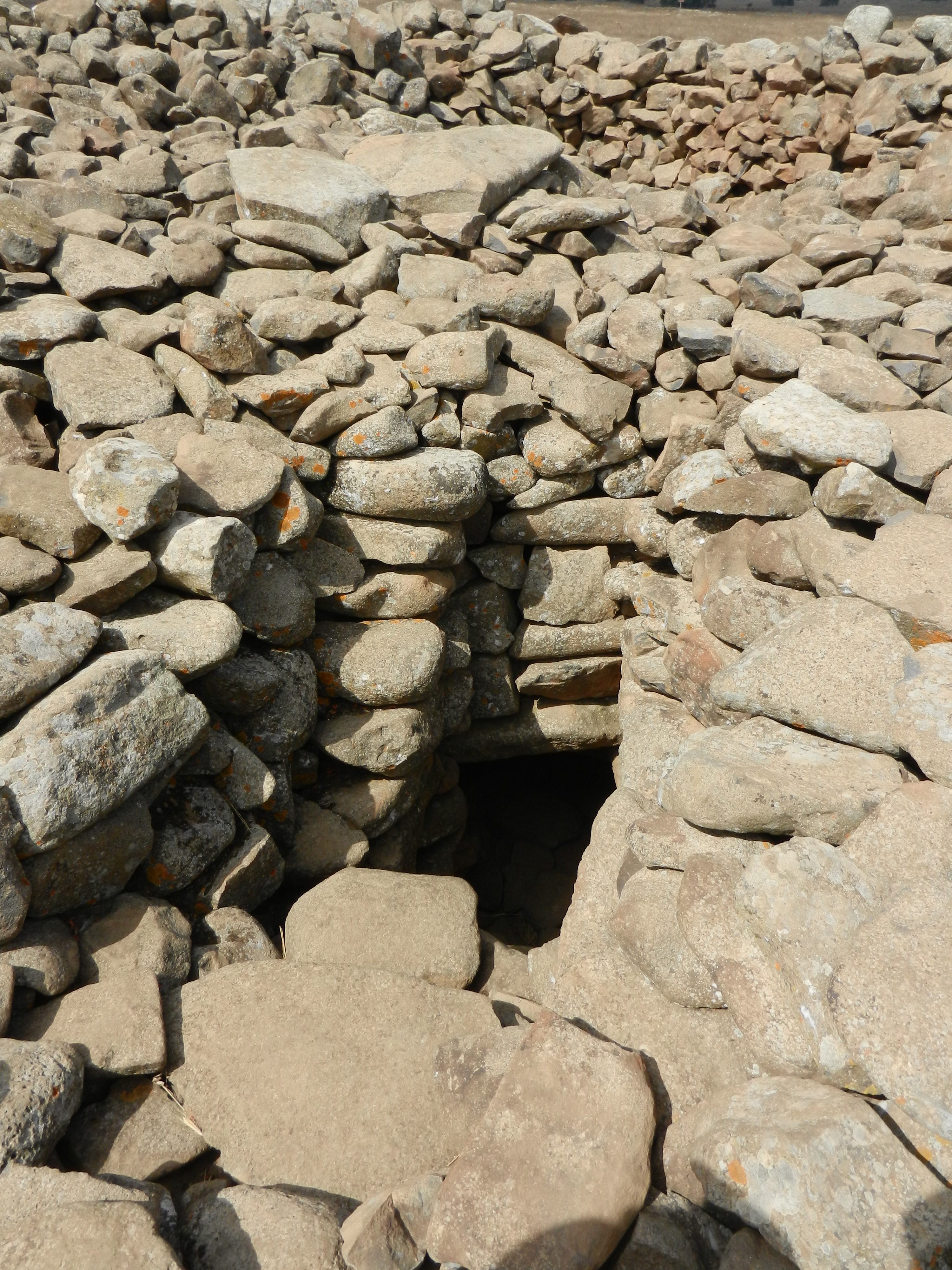 View of the entrance to the burial chamber